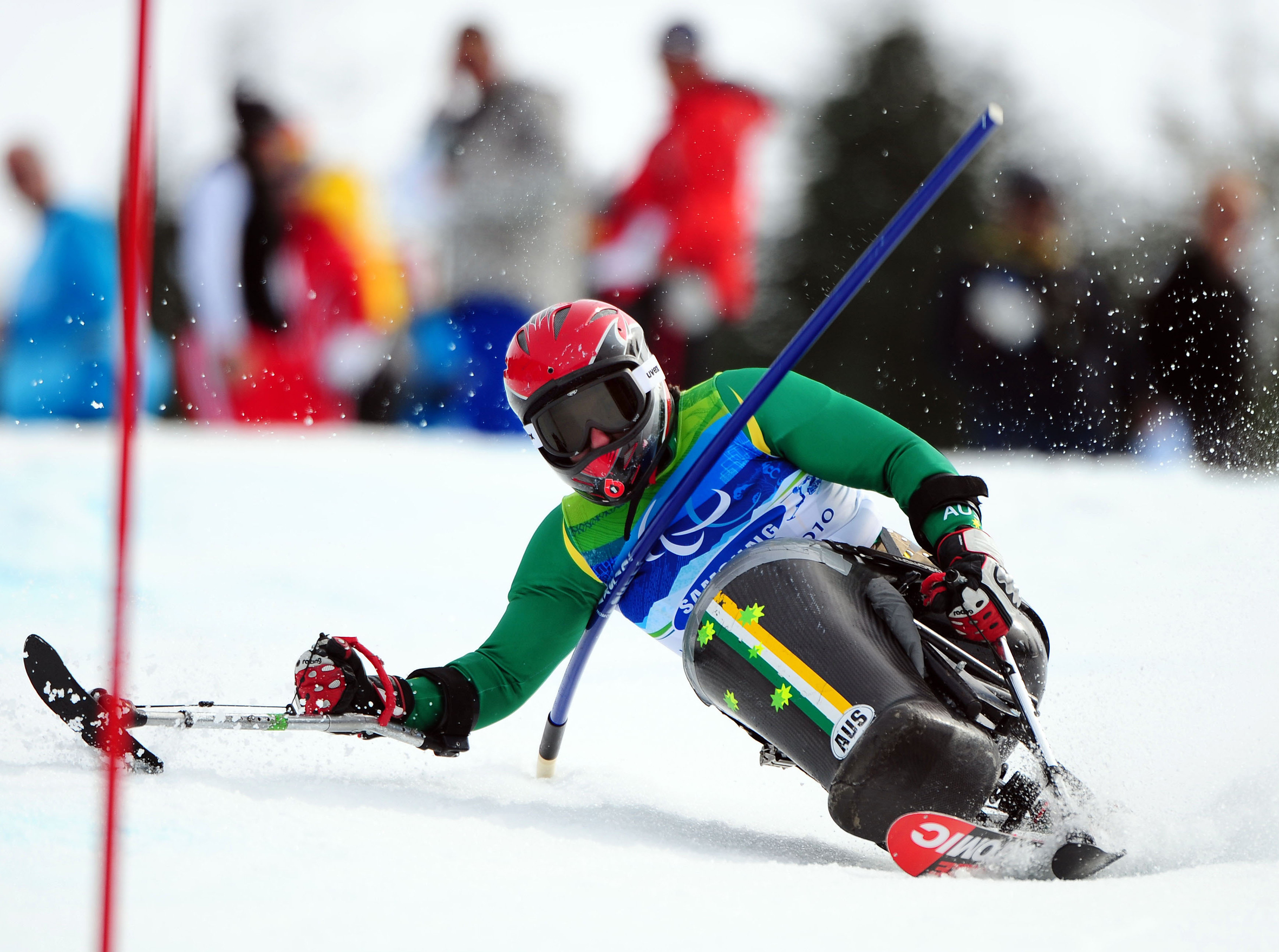 Australian sit skier Shannon Dallas competes in the slalom event at the Vancouver 2010 Paralympic Winter Games.